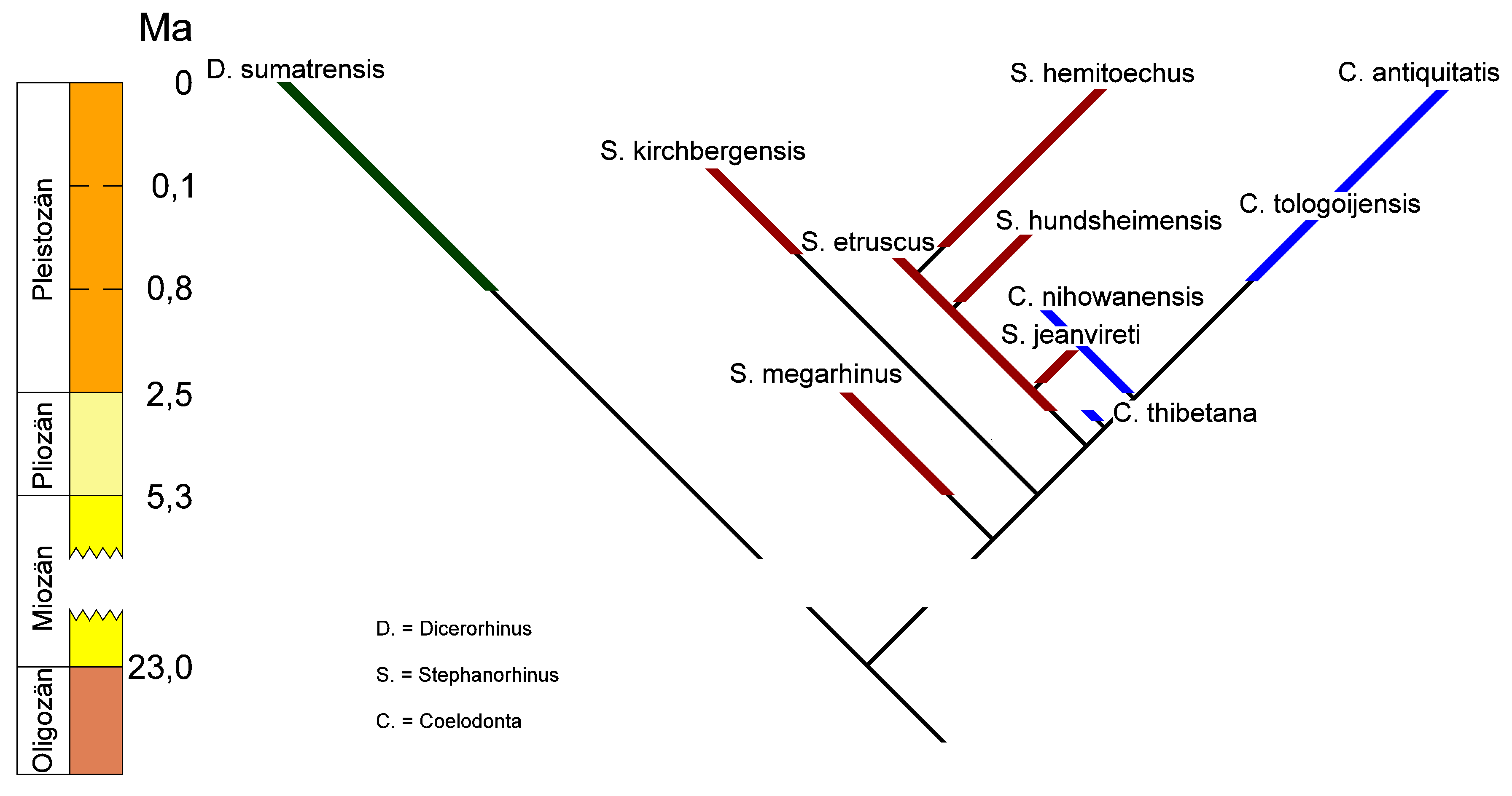 Evolution of Dicerorhinini. Portrayed are only the western eurasian members of this clade, except the Sumatran rhino.